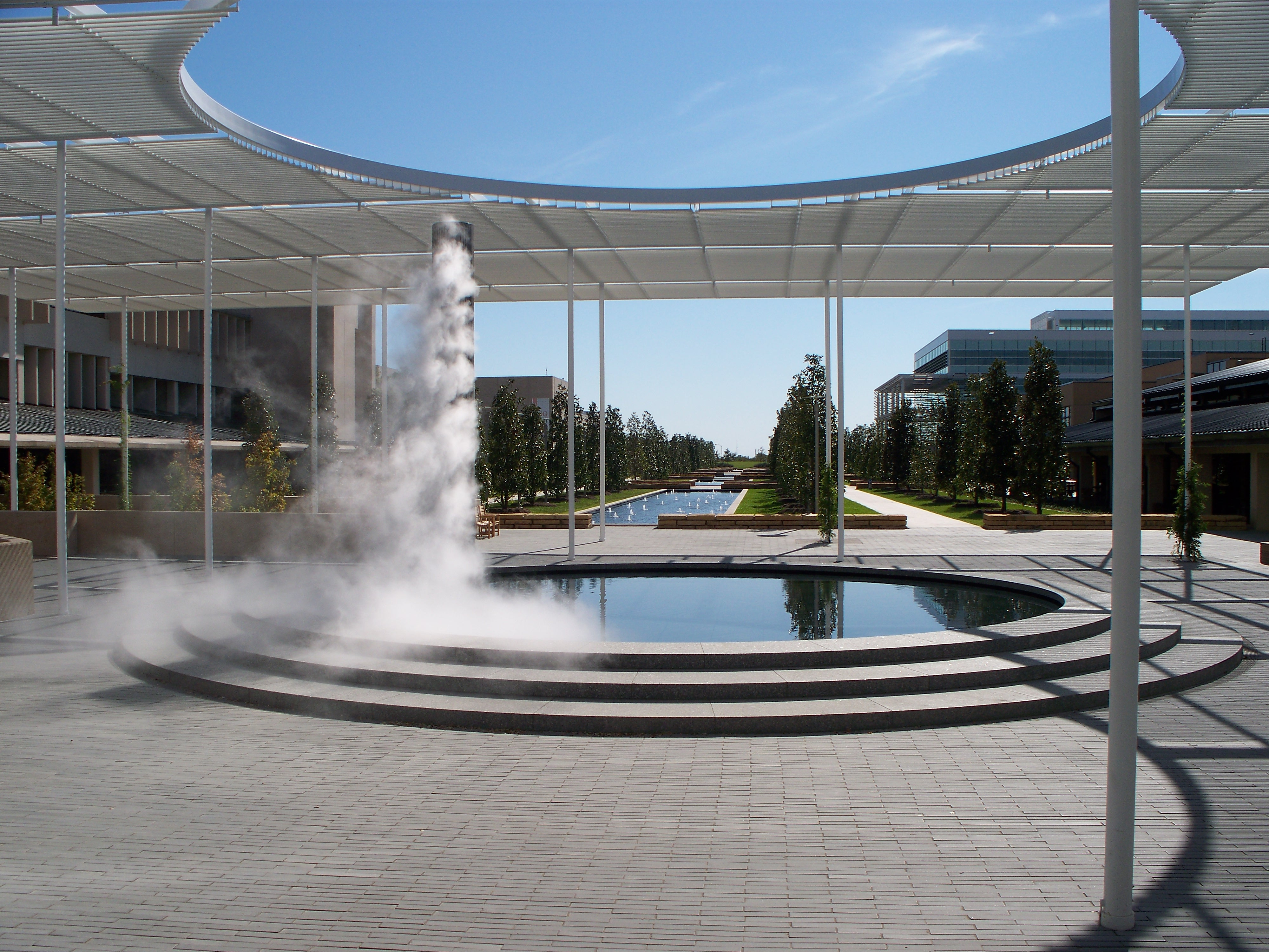 UTD campus mall. Granite fountain with mist column